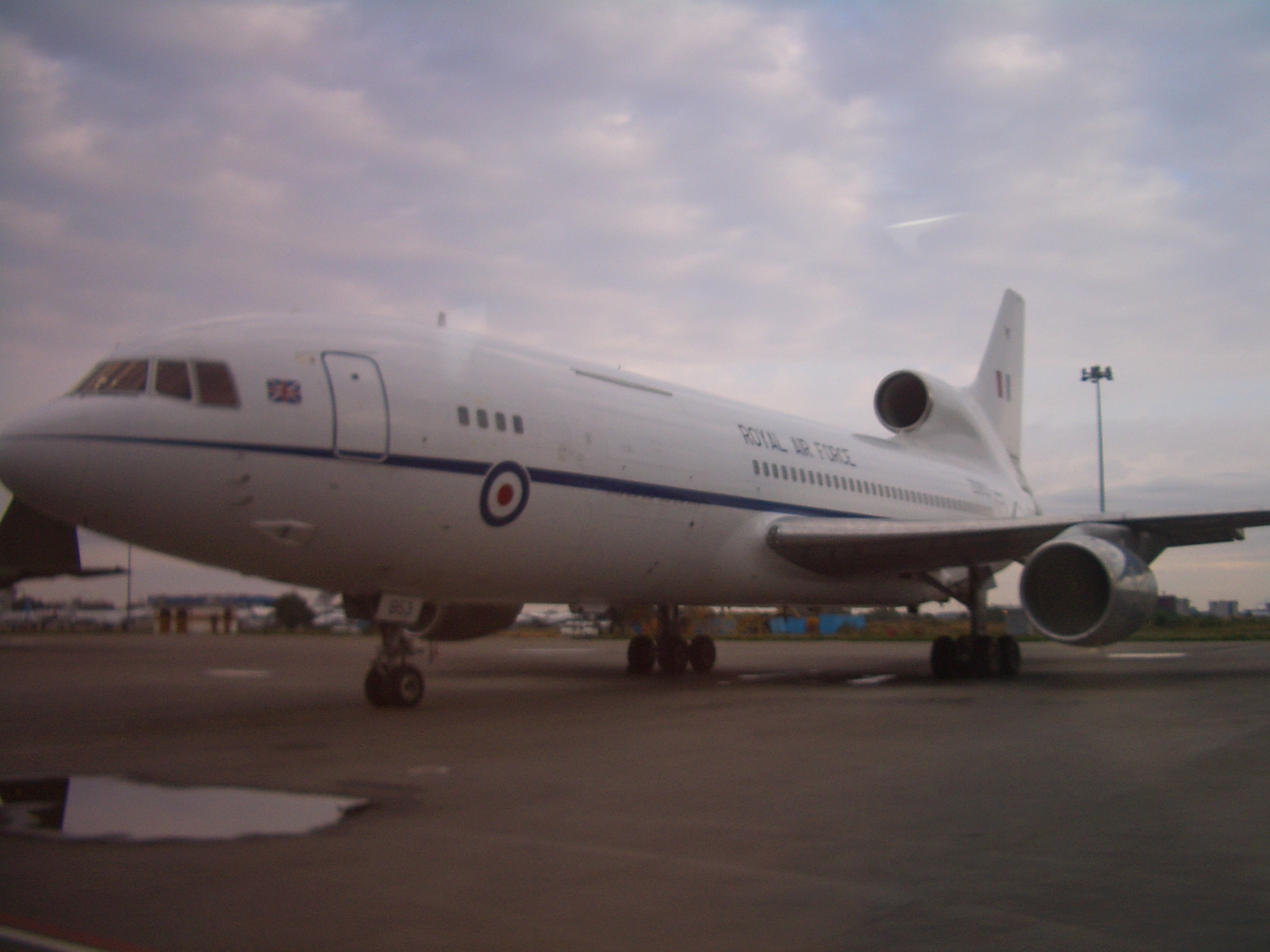 A Royal Air Force plane in Almaty International Airport, Kazakhstan